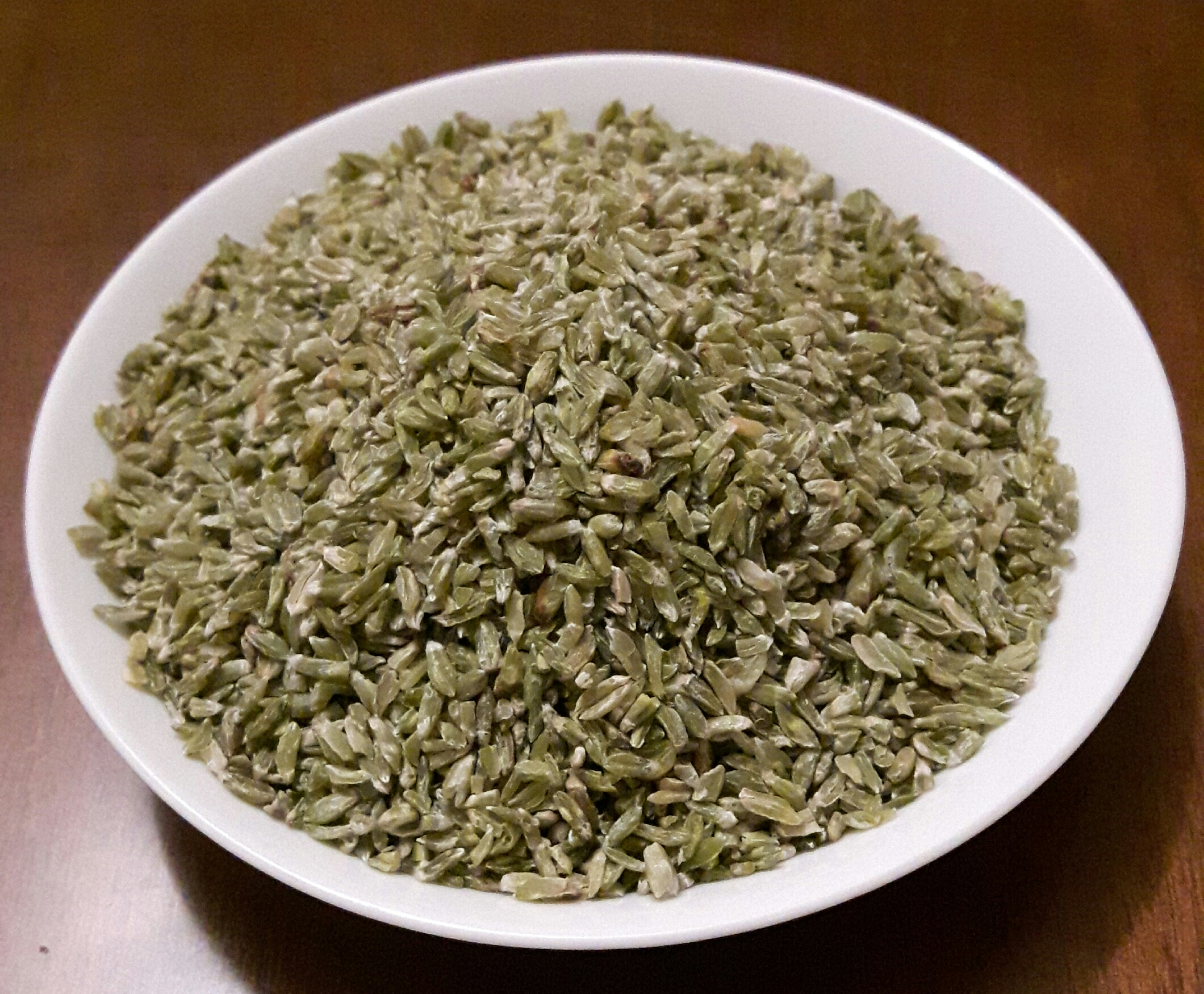 A bowl of uncooked Freekeh - torrefied durum wheat